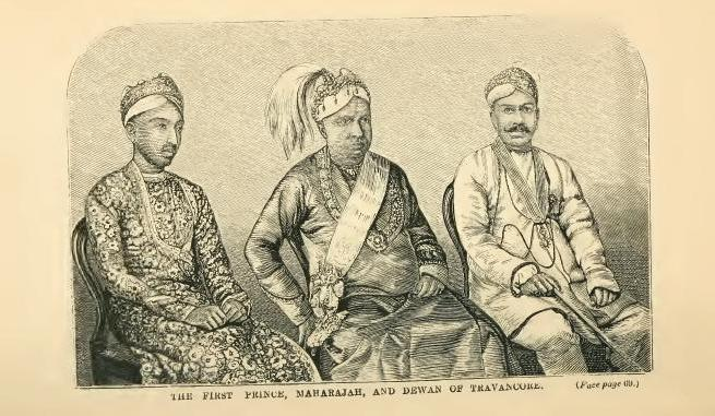 Maharajah Ayilyam Thirunal of Travancore with the first prince (name not mentioned) and Dewan Sir T. Madhava Rao